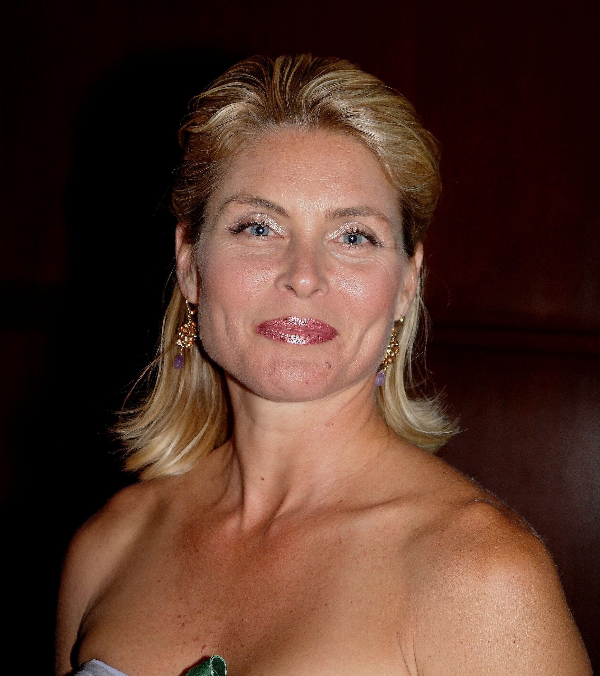 From Wash D.C. 2003